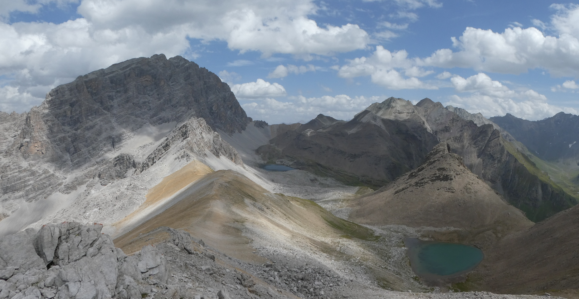 Piz Ela, Piz Val Lunga, Piz Salteras, Piz Furnatsch, Furschela da Tschitta, Pass d'Ela and Lai Grond, picture taken from Cotschen (Surses, Grison, Switzerland)